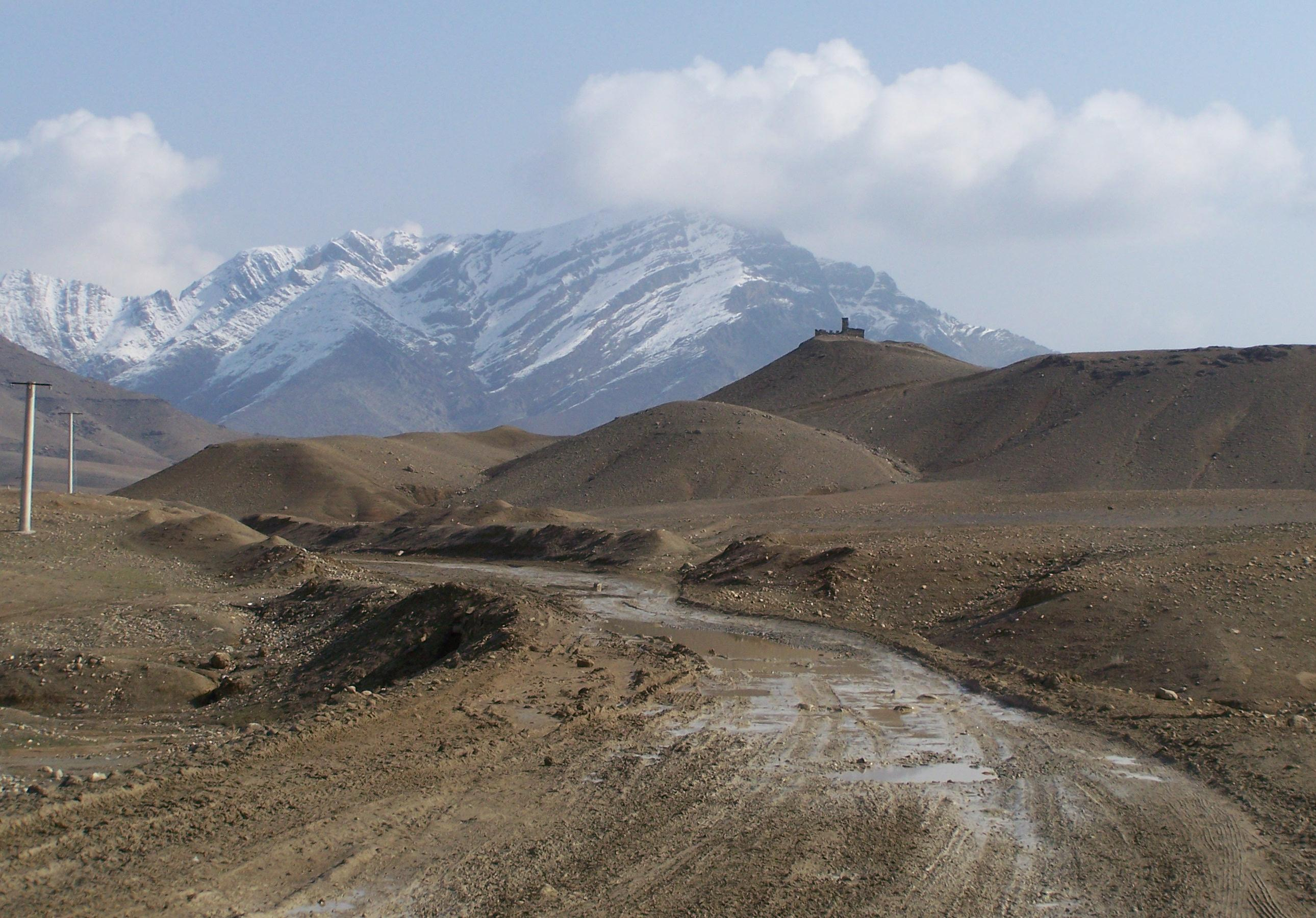 Lataband Rd. between Kabul and Surobi, Afghanistan